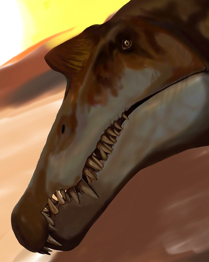 Spinosaurus aegyptiacus head at the sunset